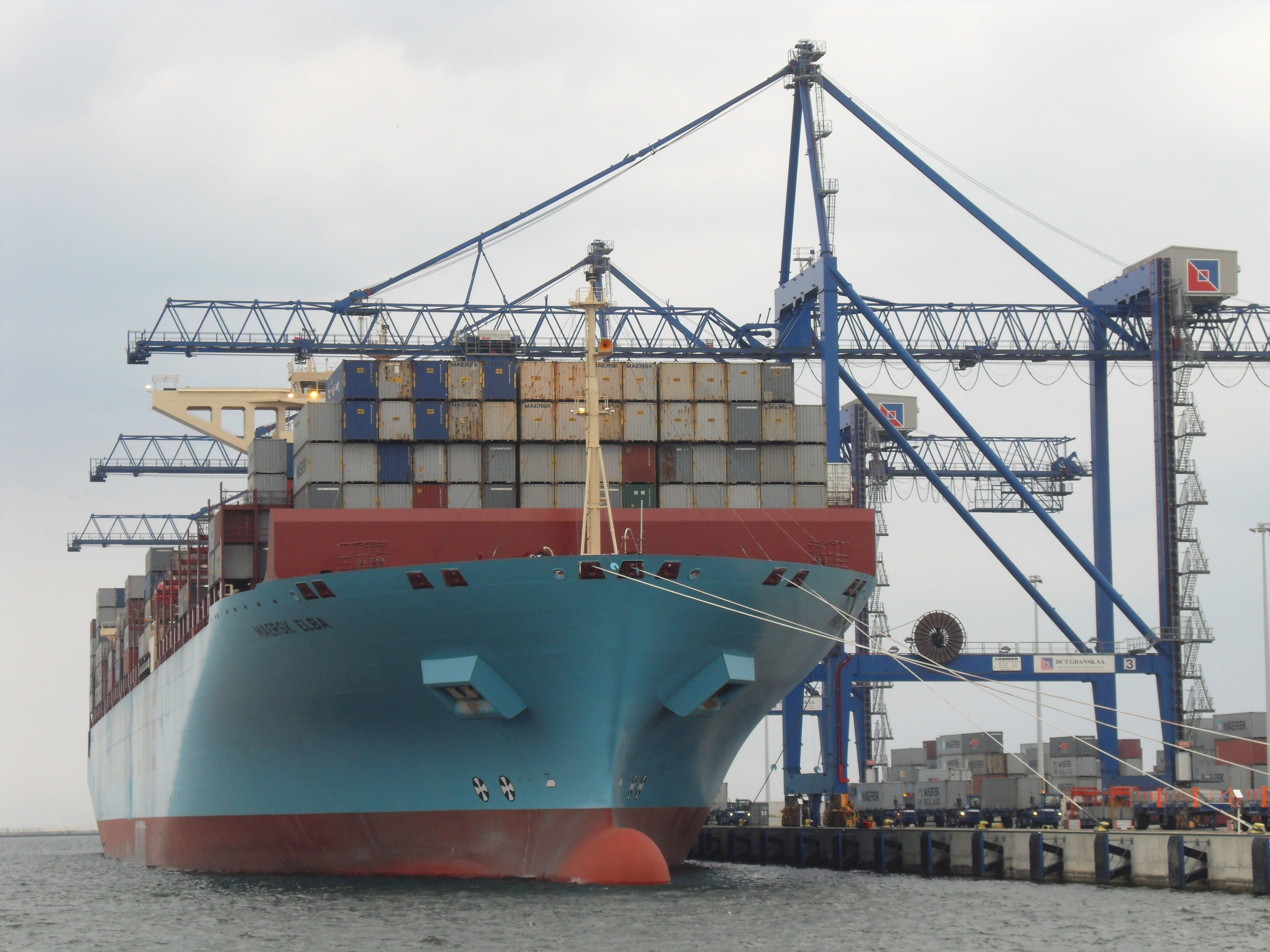 Maersk Elba in Gdańsk (Poland). Information about Maersk Elba may be found at IMO 9458078.A ship can change name and flag state through time, but the IMO number remains the same through the hull's entire lifetime. As a result, it can be useful to identify a ship by using the IMO number.